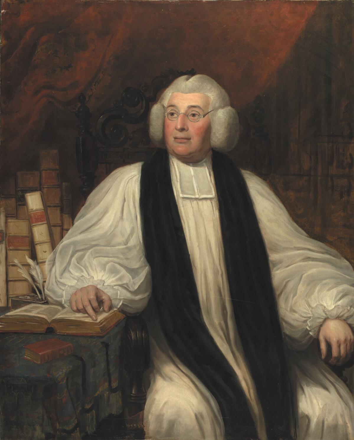 A painting from the Framed Works of Art collection at the National Library of wales.